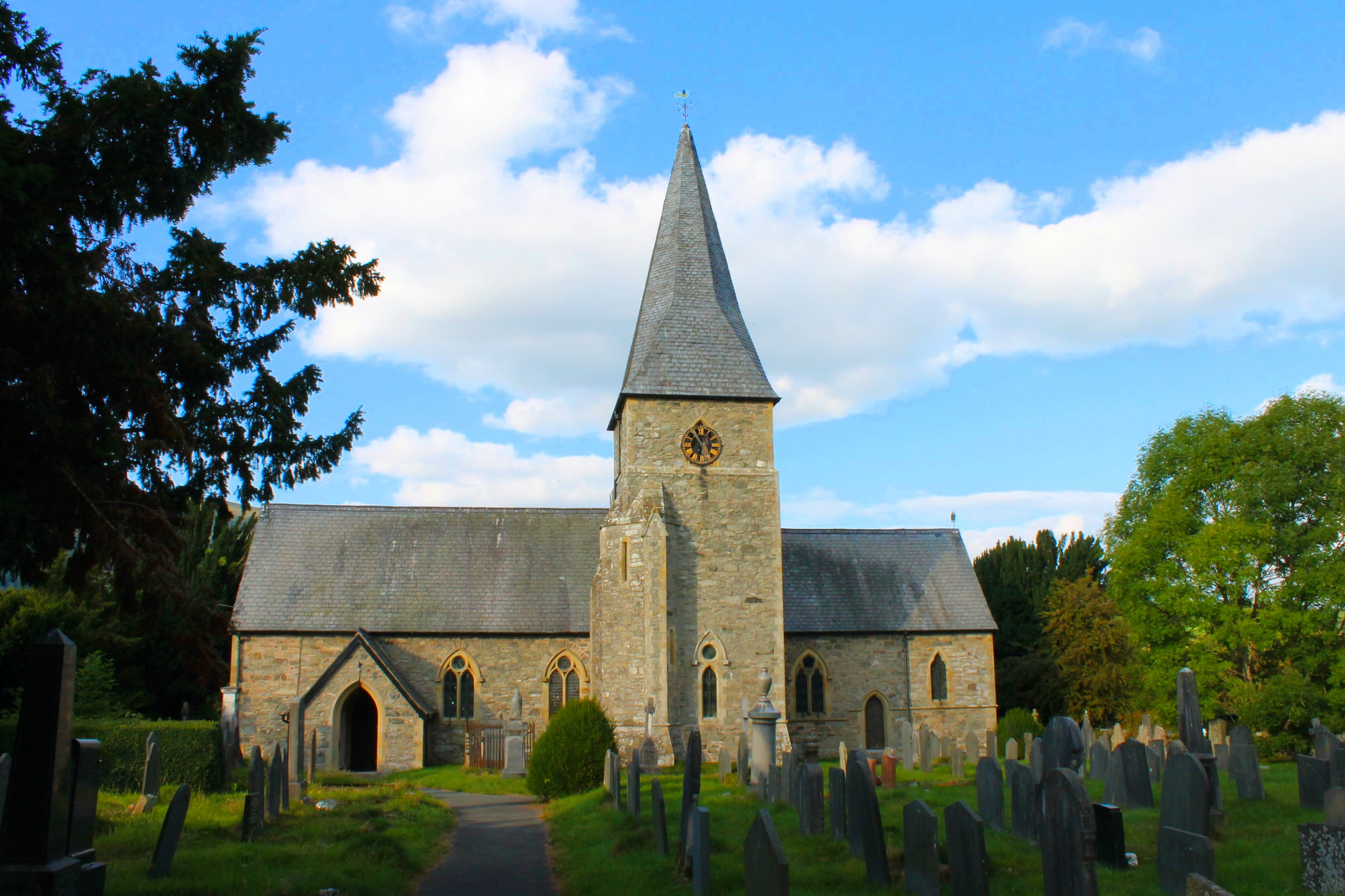 St. Thomas Church Penybontfawr, Powys. Built 1855. Grade II listed building.